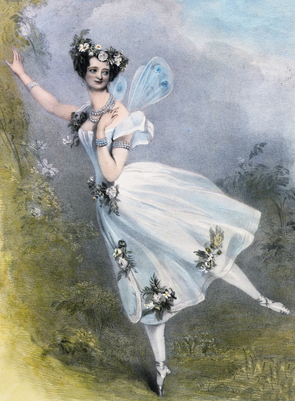 Marie Taglioni as Flore in Charles Didelot's ballet Zephire et Flore. Hand colored lithograph, circa 1831.